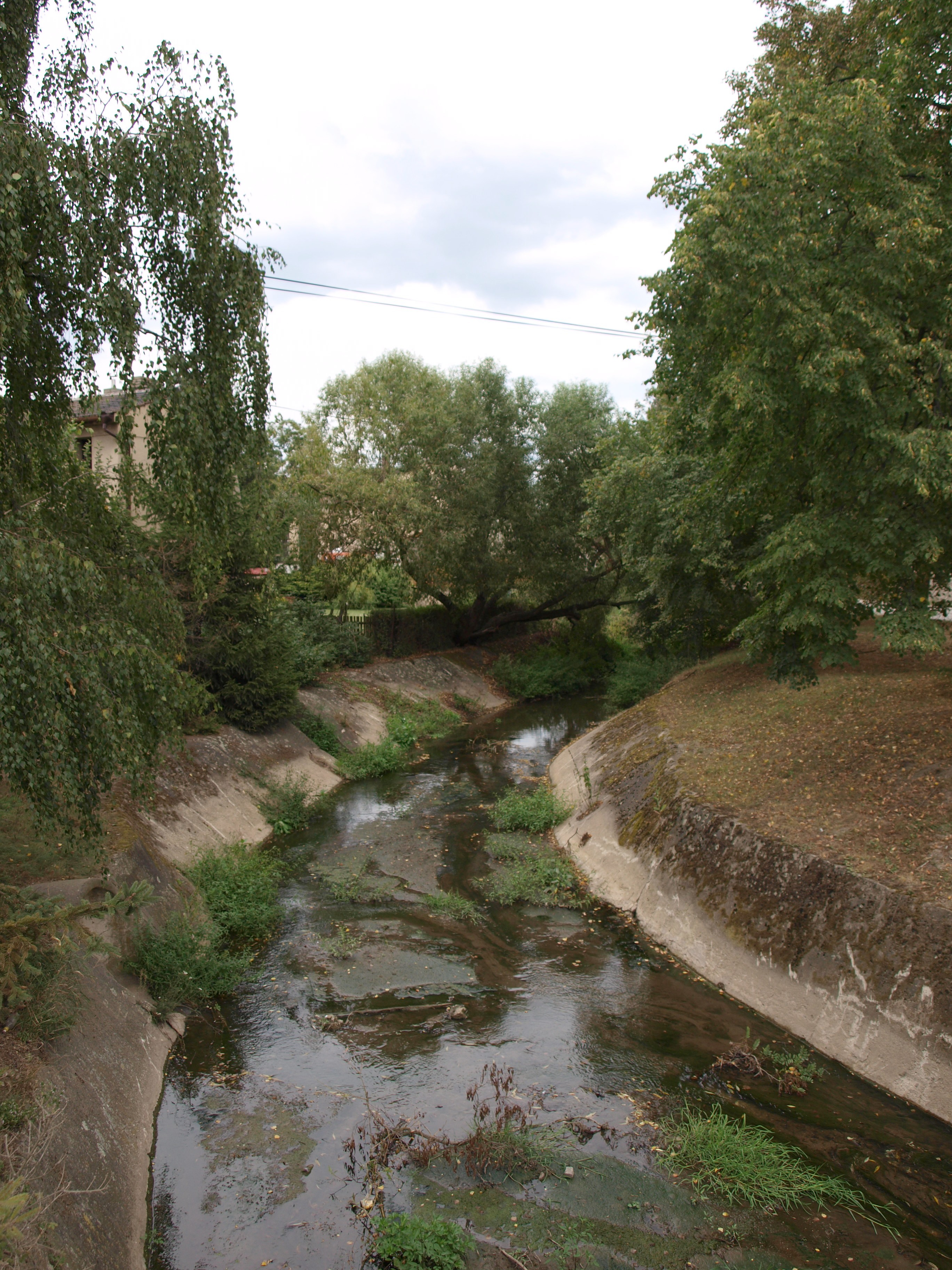 Brook, Olovnice, Mělník District, Czech Republic